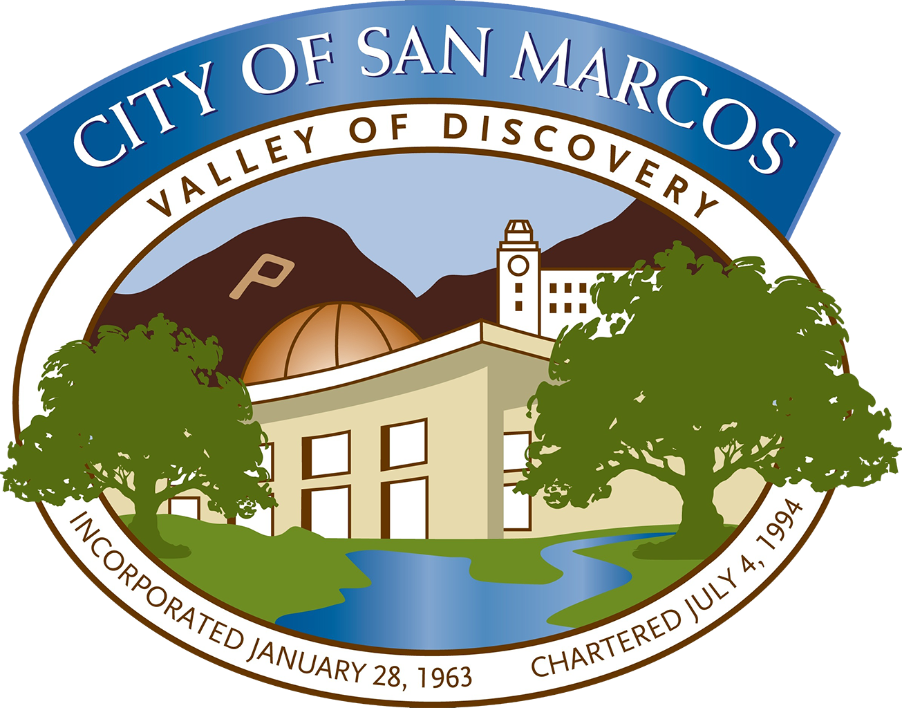 Official Seal of the City of San Marcos, CA